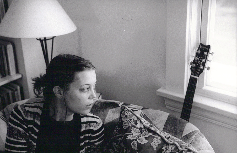 Kim Taylor photo. KimSBSB by David Strasser, 2002.